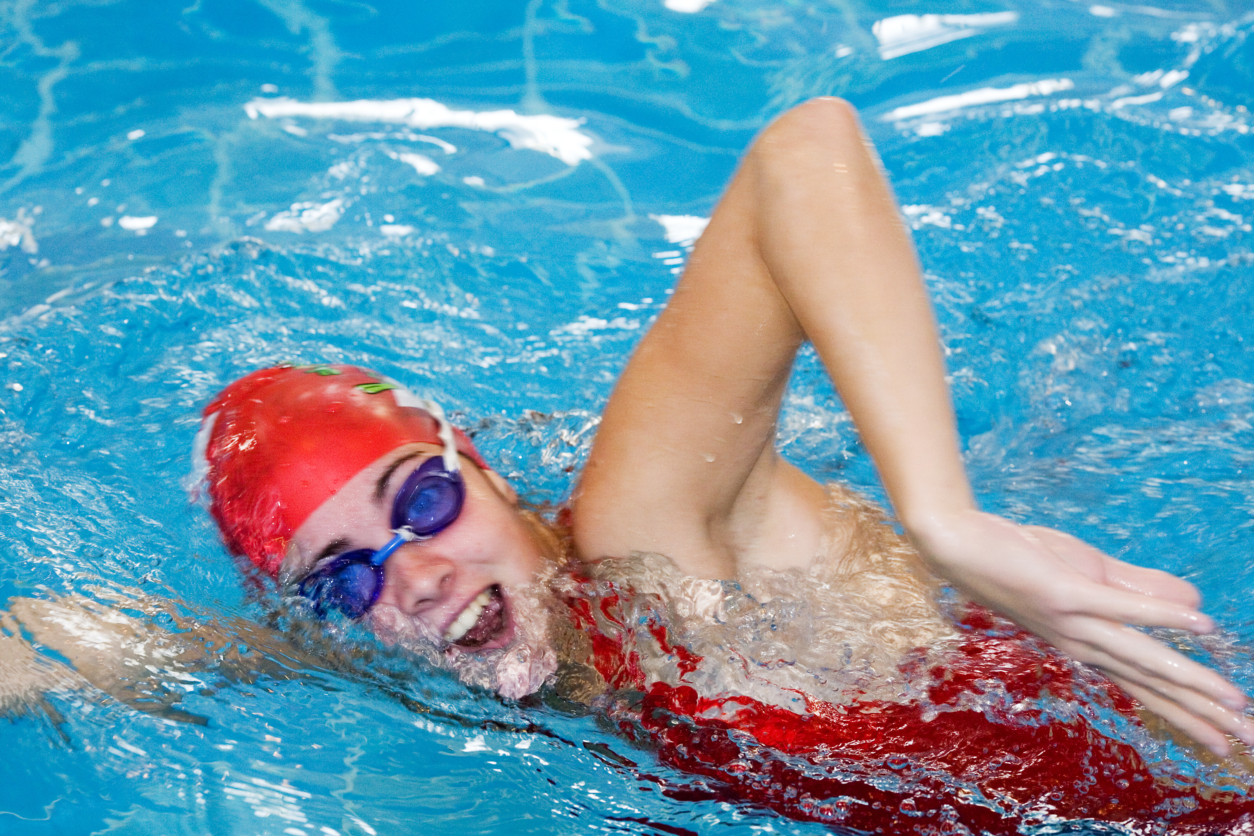 Swimmer in Public Swimming pool, Munich